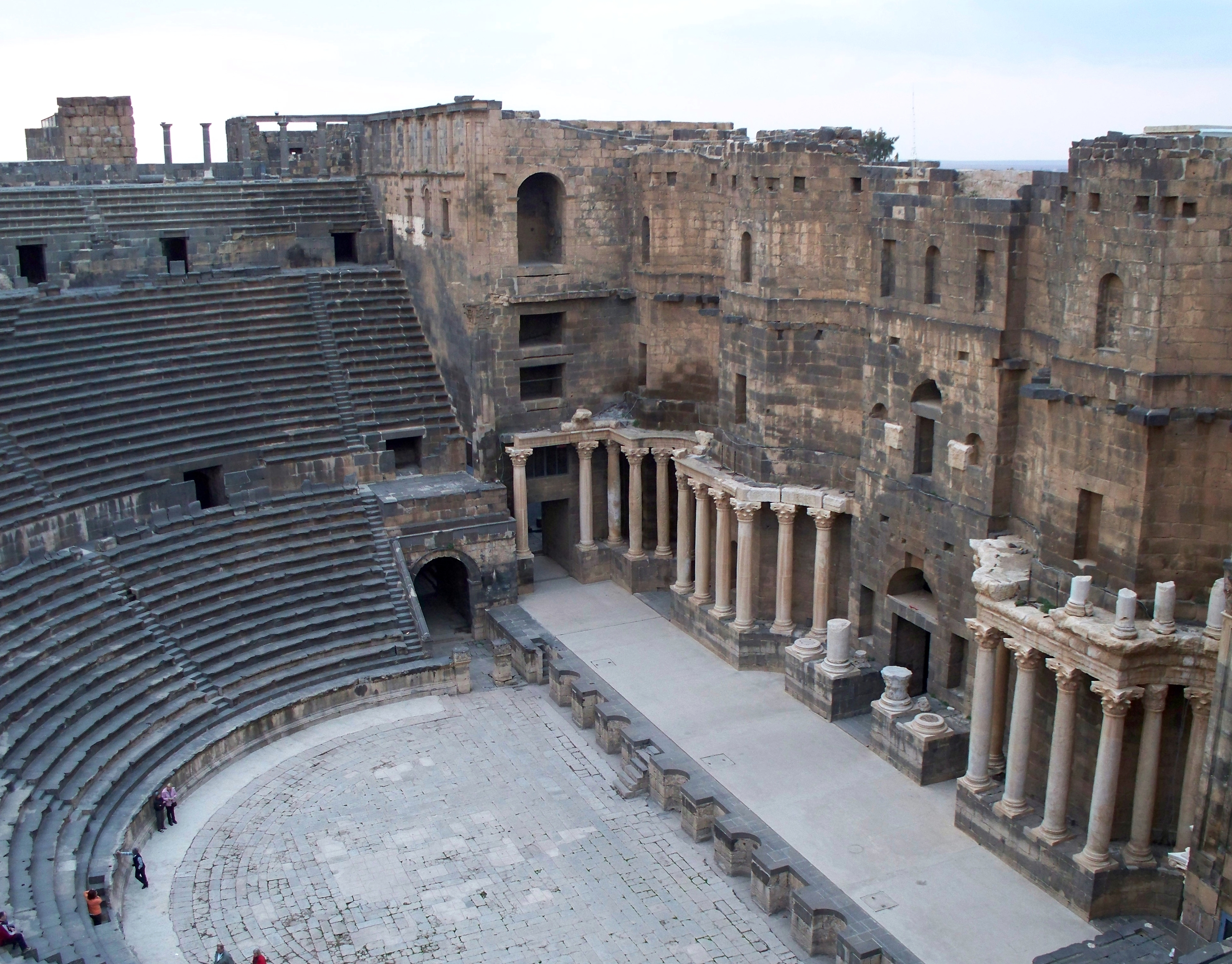 The Ancient Roman theatre in Bosra, Syria.